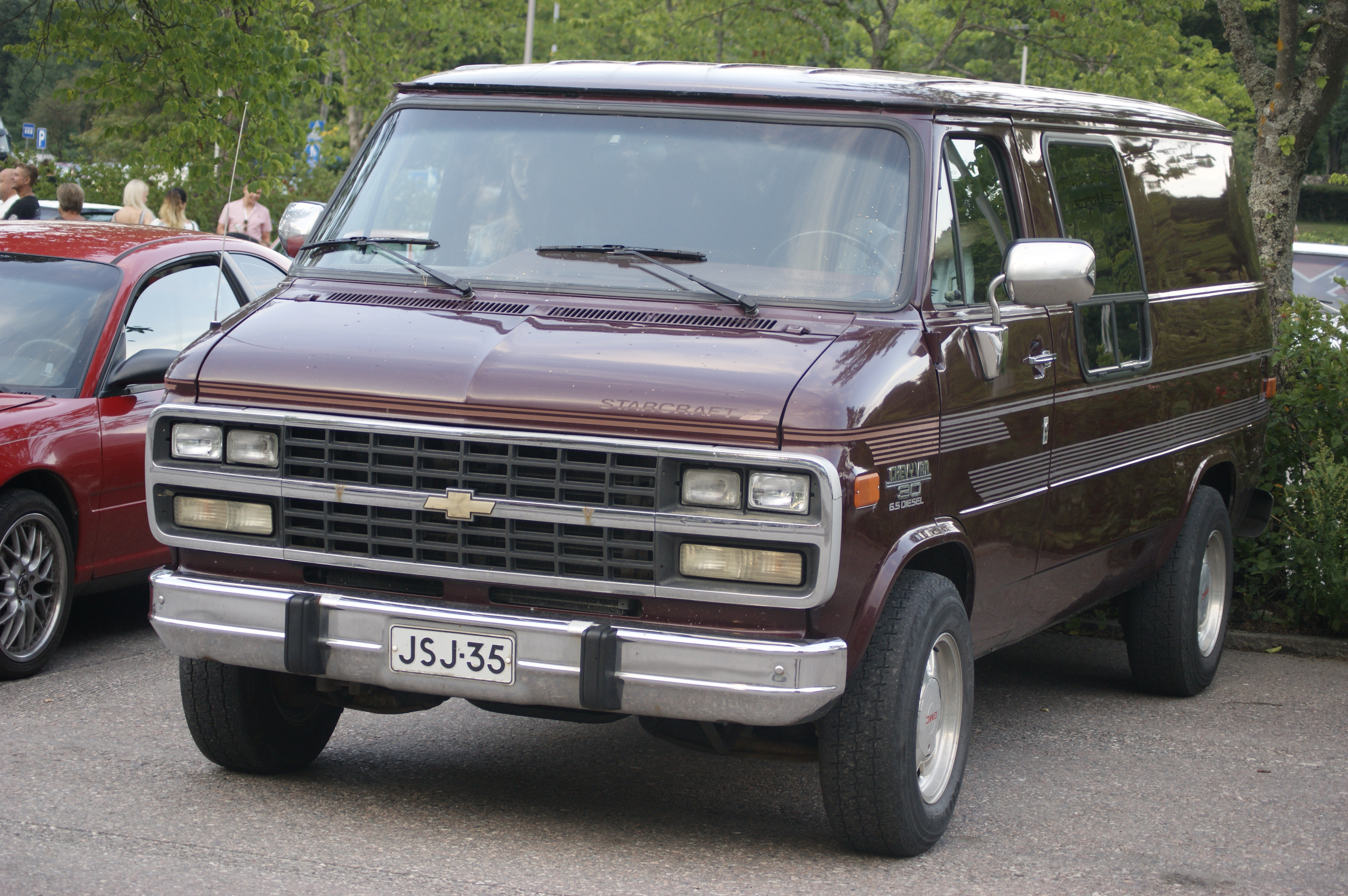 1995 Chevrolet Chevy Van 30 in Vantaa, Finland.